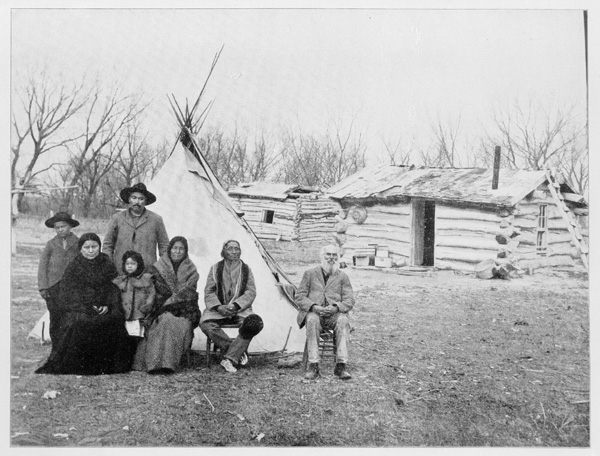 Enoch W. Raymond, wife, and other family members of wife's in front of teepee with log houses in background, Rose Bud Agency, South Dakota